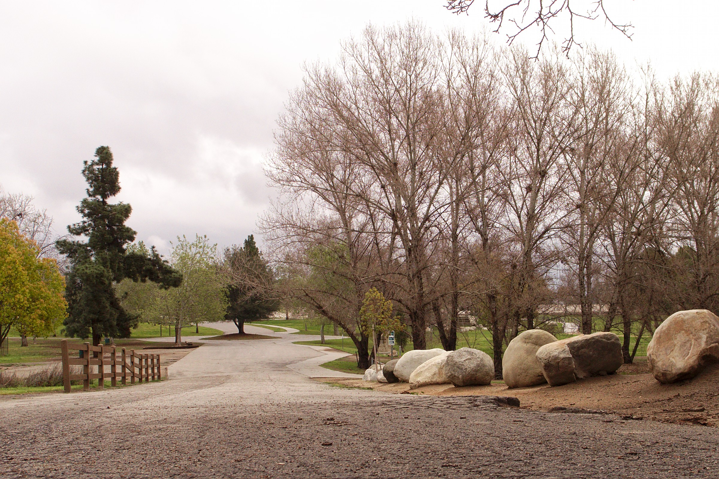 Access road leading to parking areas in Woodley Park, part of the Sepulveda Basin Recreation Area in Van Nuys, Los Angeles, California.